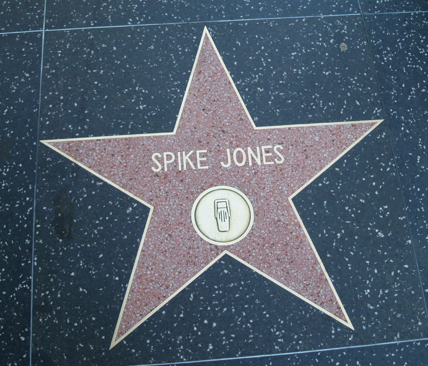 Spike Jones star, Hollywood Walk of Fame